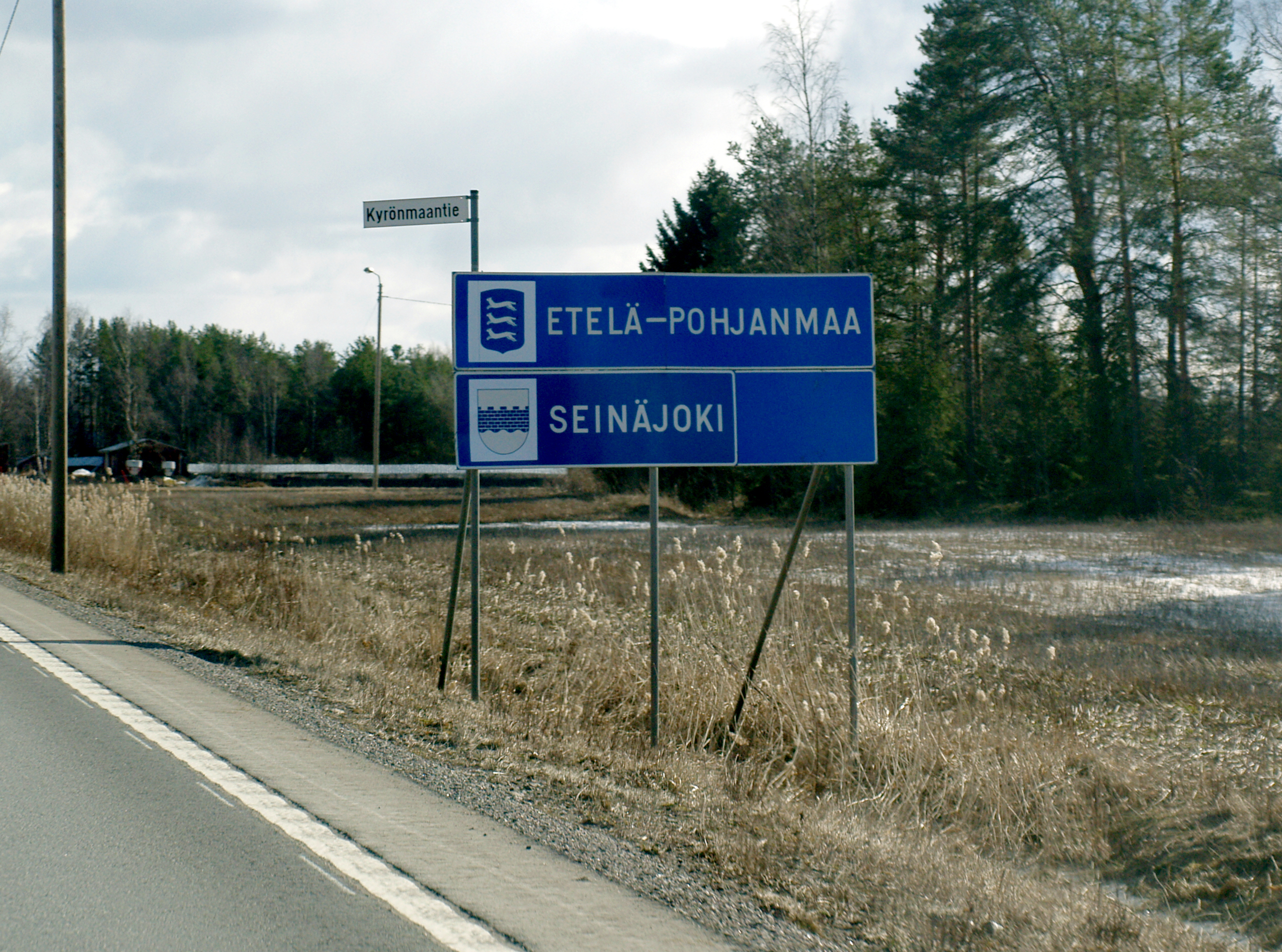 Southern Ostrobothnia and Seinäjoki border sign.